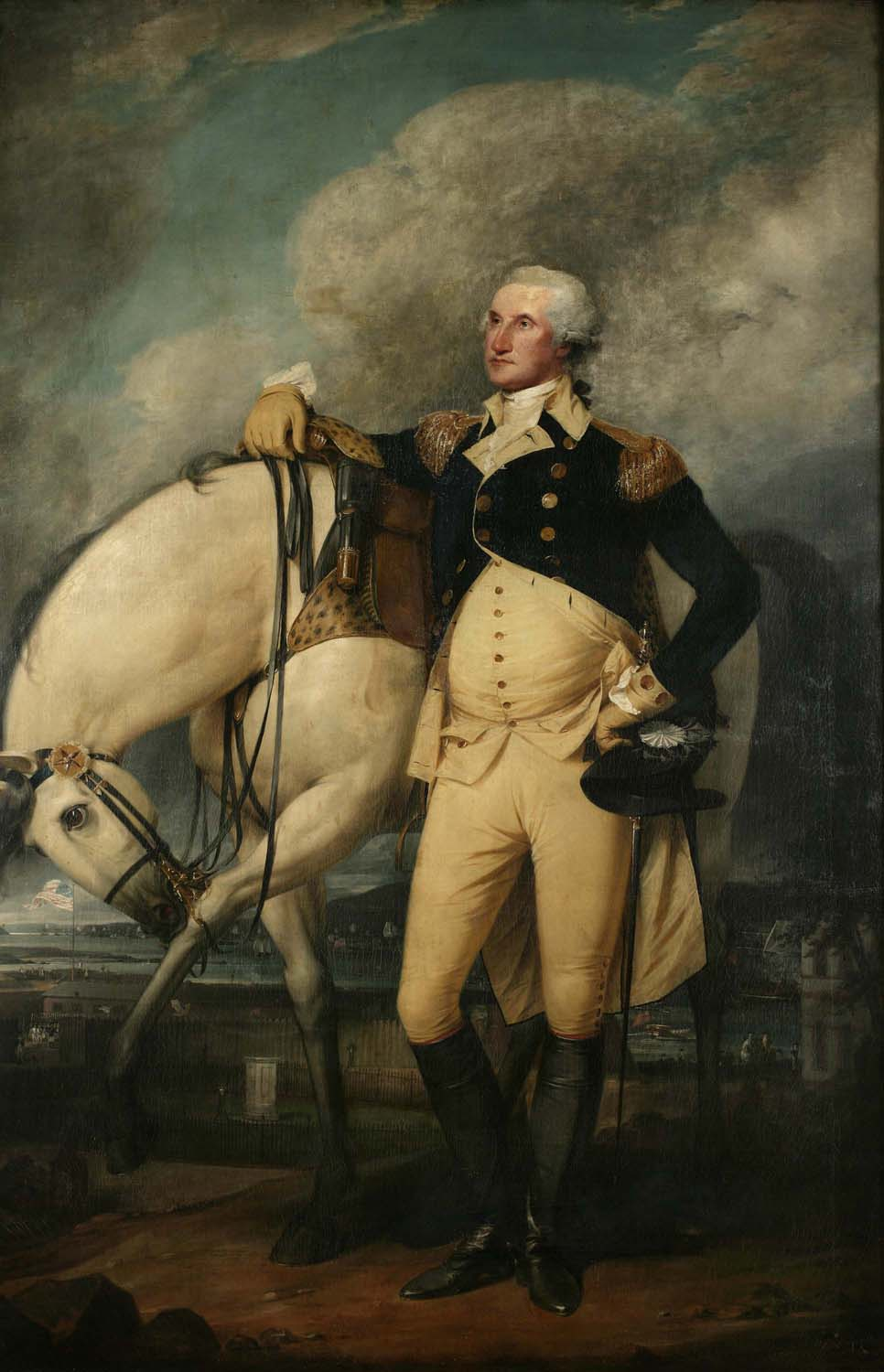 Full-length portrait of George Washington by John Trumbull painted in 1790 for New York City. Second version of Washington at Verplanck's Point, but with background set on Evacuation Day, November 25, 1783, the return of Washington and the departure of British forces.